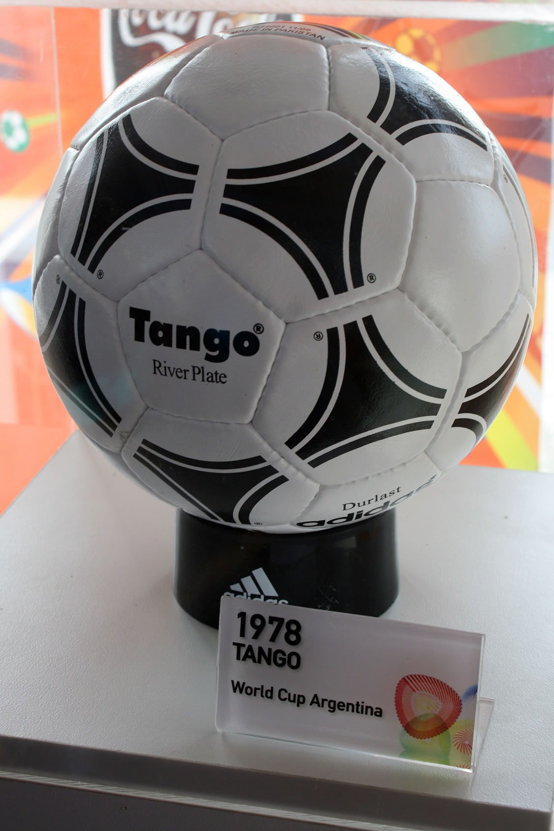 Adidas Tango was the Official Match Ball for the 1978 FIFA World Cup Argentina. "It introduced a new design which would be used for the next twenty years: Twenty identical panels with ?triads? created the impression of 12 circles. It was the most expensive ball in history, at the time, with a �50 price tag."